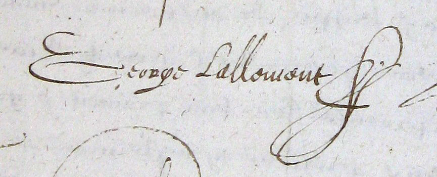 Signature of Georges Lallemant, 1612